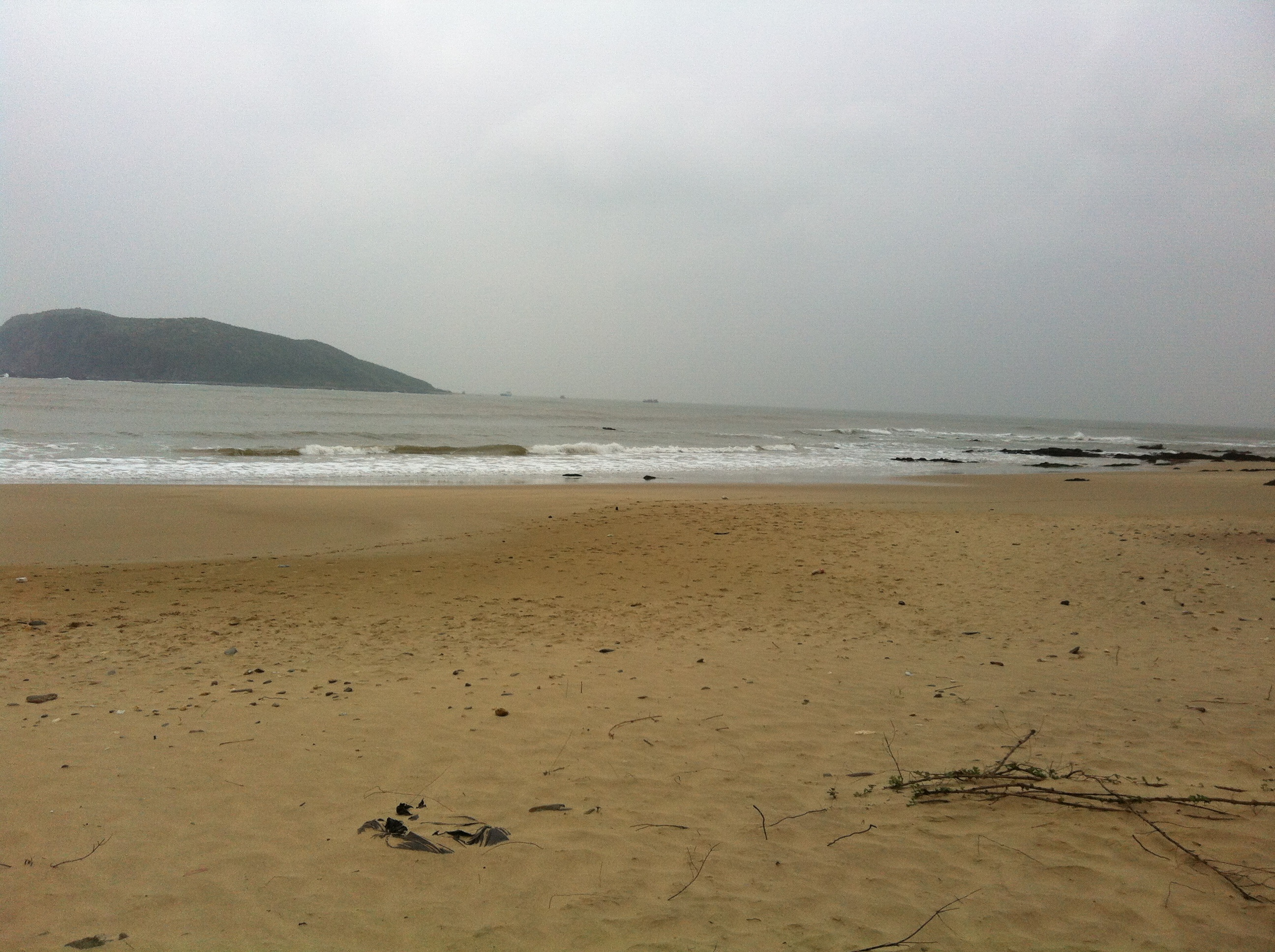 Vung Chua beach in Quang Binh, Vietnam